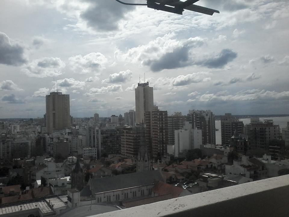 Otra vista desde la Torre Tanque